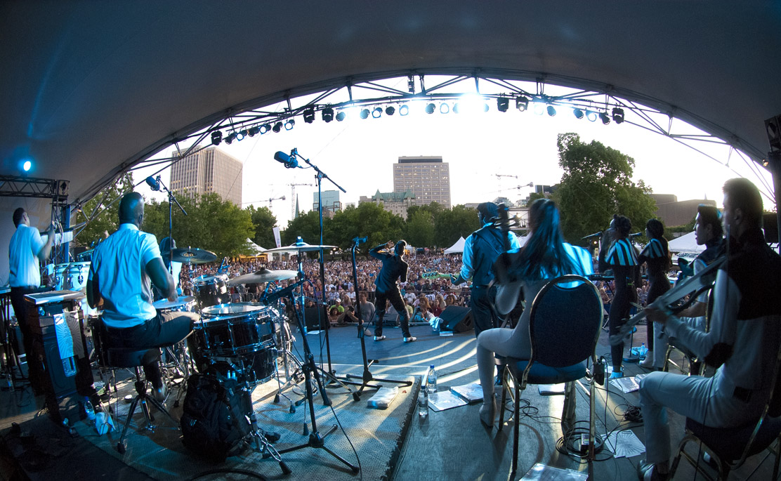 Janelle Monae performs at the 2012 TD Ottawa Jazz Festival